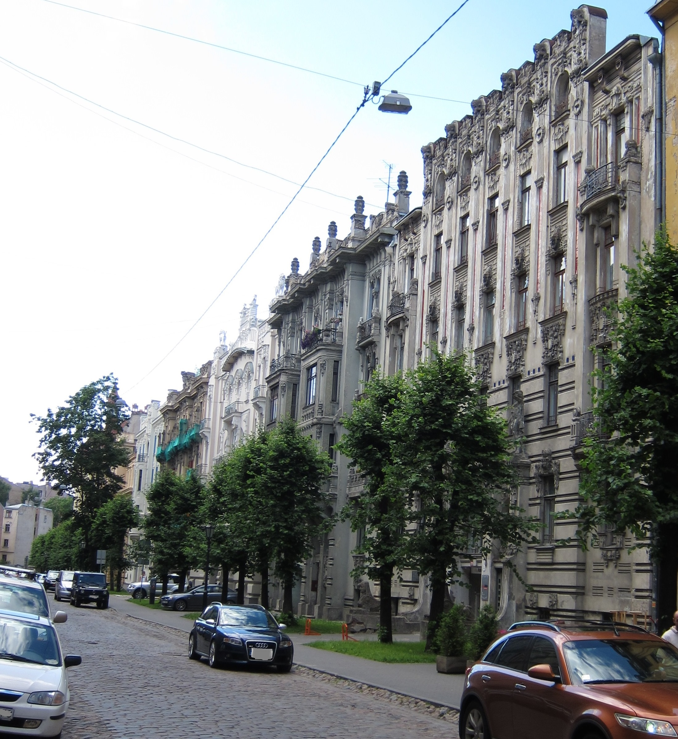 Art Nouveau buildings in Riga, iela Alberta (street)